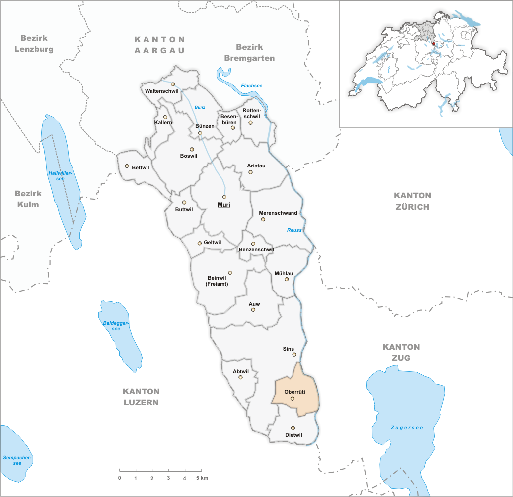 Municipality Oberrüti